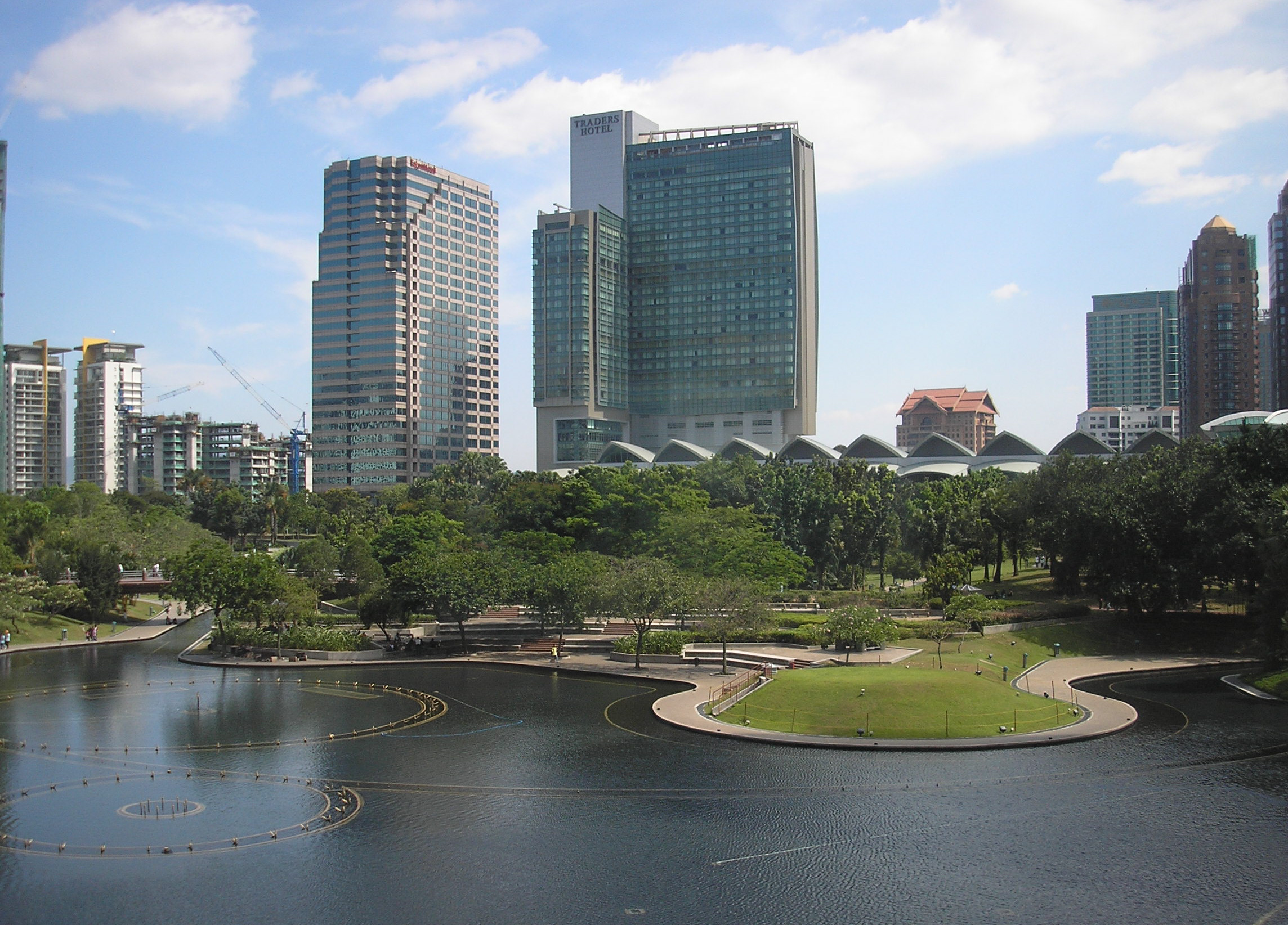 The KLCC Park (as seen towards the southeast from Suria KLCC), at the Kuala Lumpur City Centre, Kuala Lumpur, Malaysia. The Exxon-Mobil Tower and Traders Kuala Lumpur hotel are depicted in the middle, while the roof of the Kuala Lumpur Convention Centre is visible towards the right.